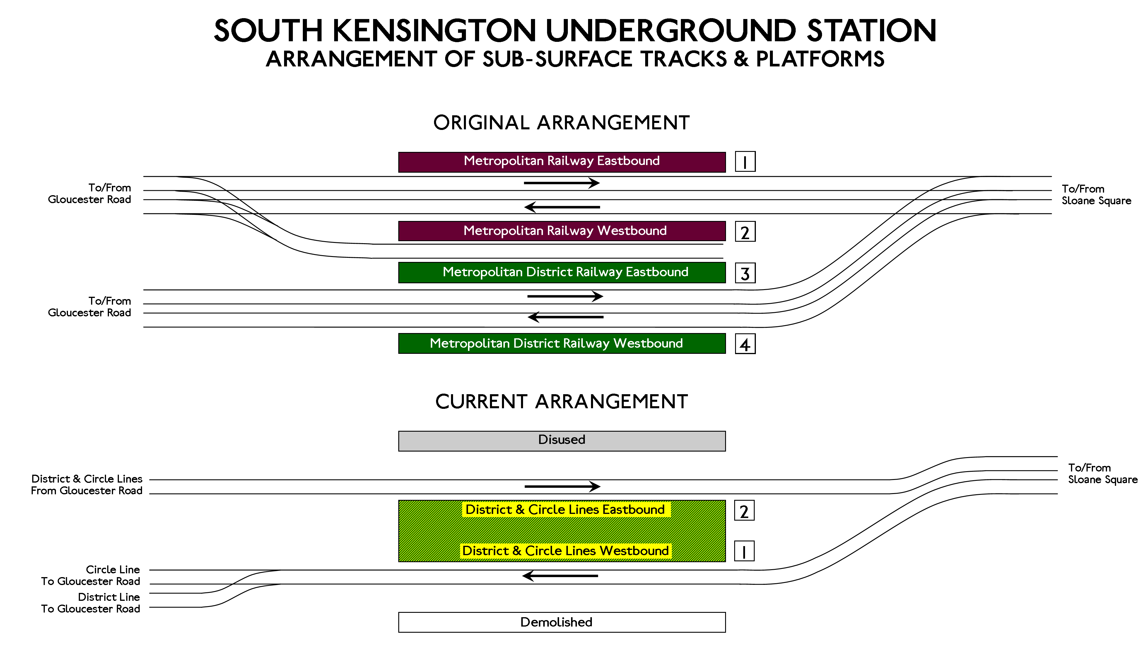 Diagram of the original and current layouts of the sub-surface District Line and Circle Line platforms at London Underground's South Kensington station.